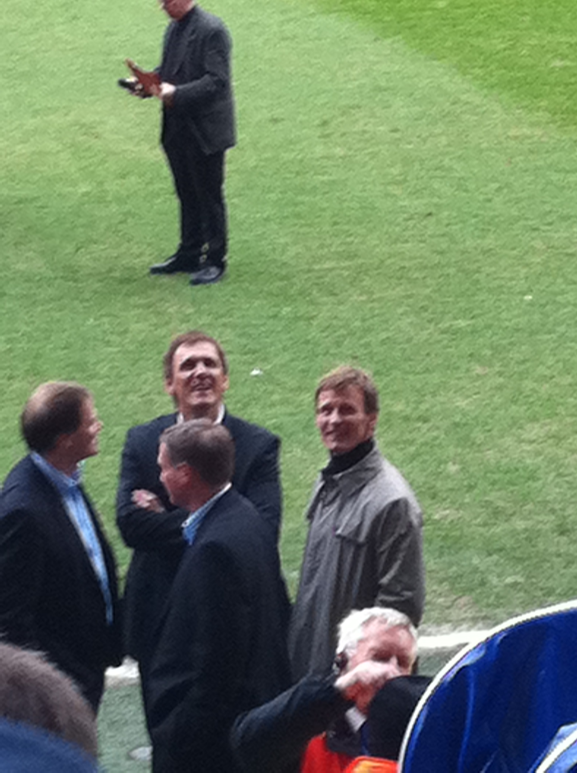 Tony Cascarino and Teddy Sheringham pitch side at The Den for Dockers Day.